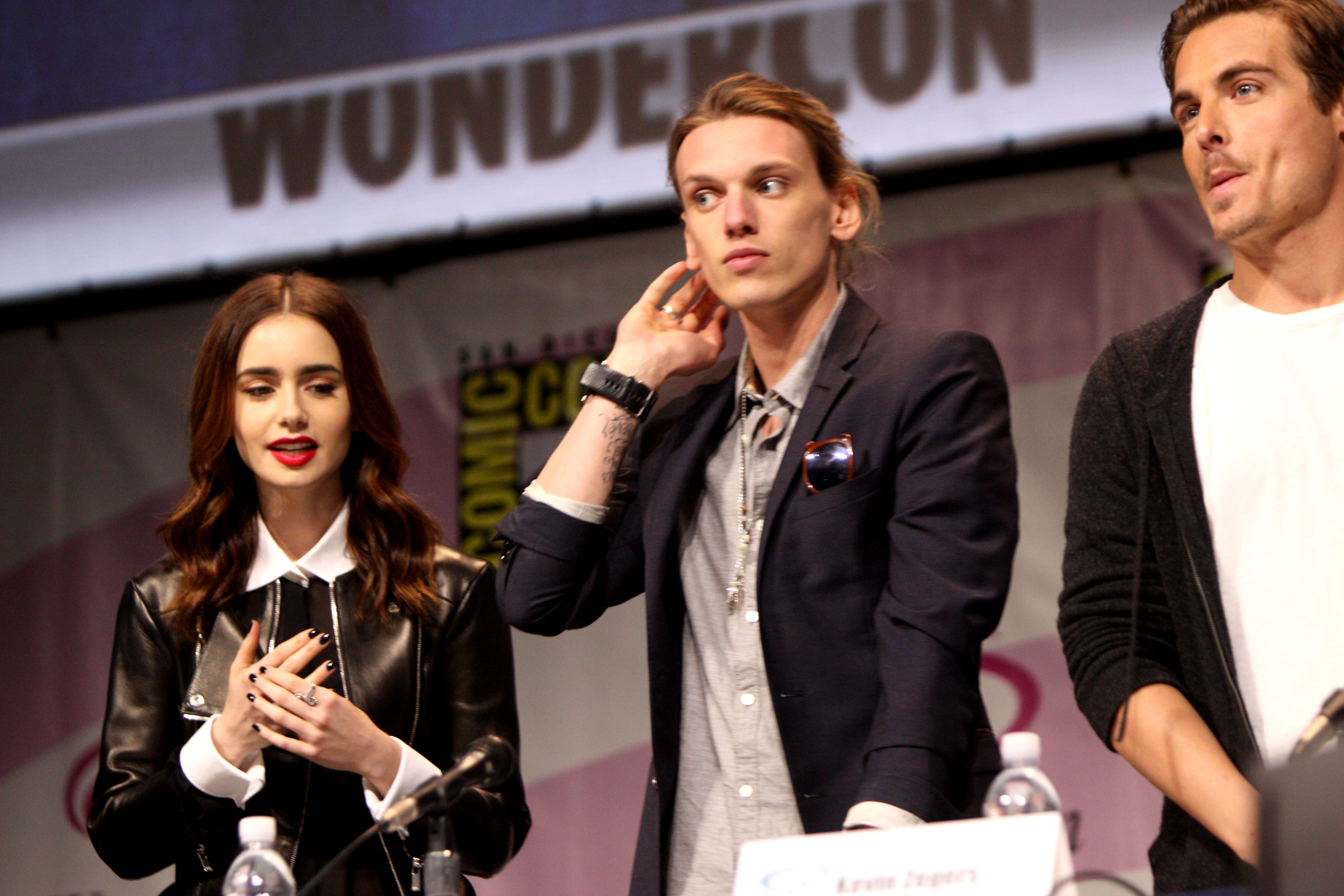 Kevin Zegers, Jamie Campbell Bower and Lily Collins speaking at the 2013 WonderCon at the Anaheim Convention Center in Anaheim, California.